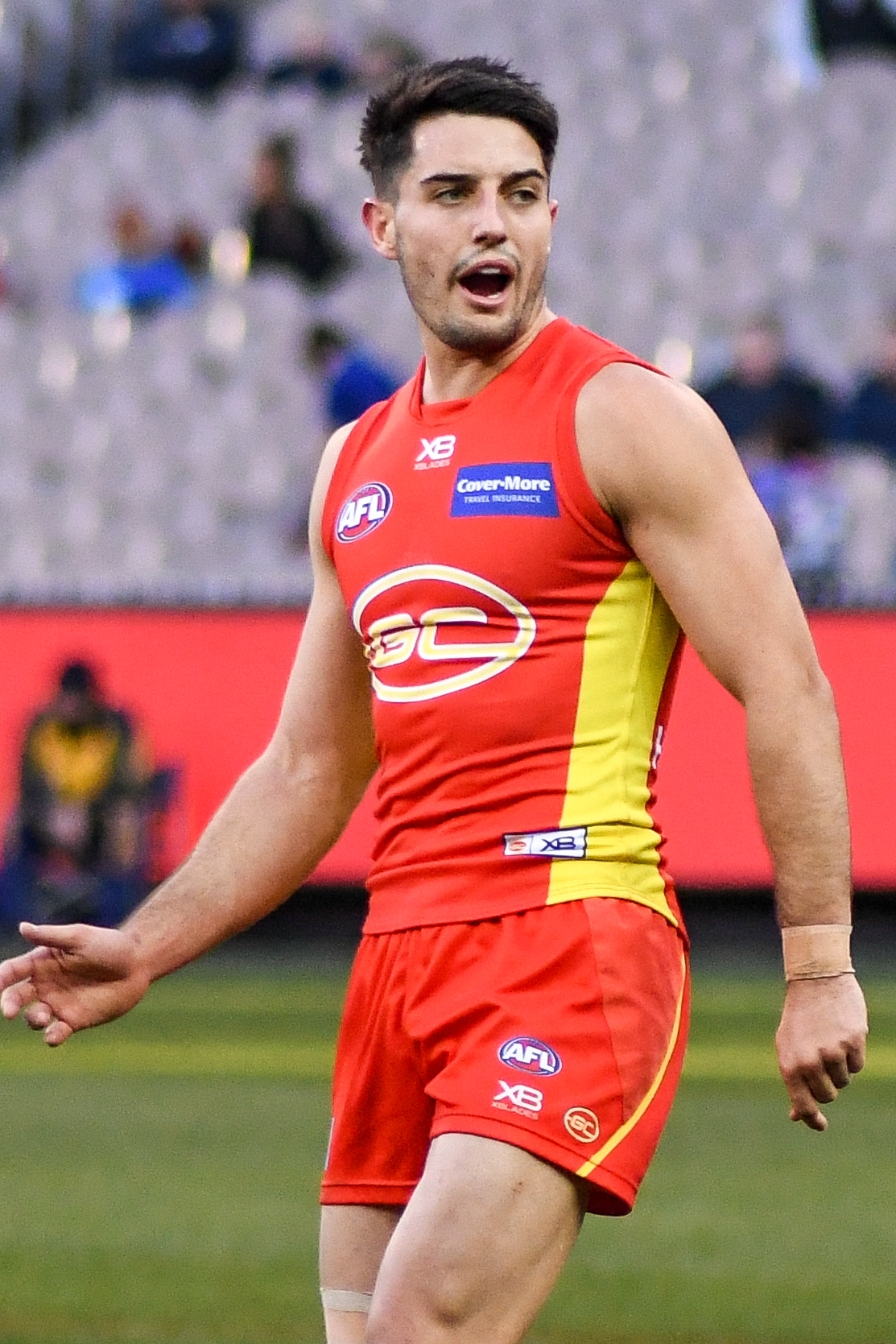 Brayden Fiorini of Gold Coast during the 2018 AFL round 20 match between Melbourne and Gold Coast at the Melbourne Cricket Ground on Sunday, 5 August 2018 in Melbourne, Victoria.